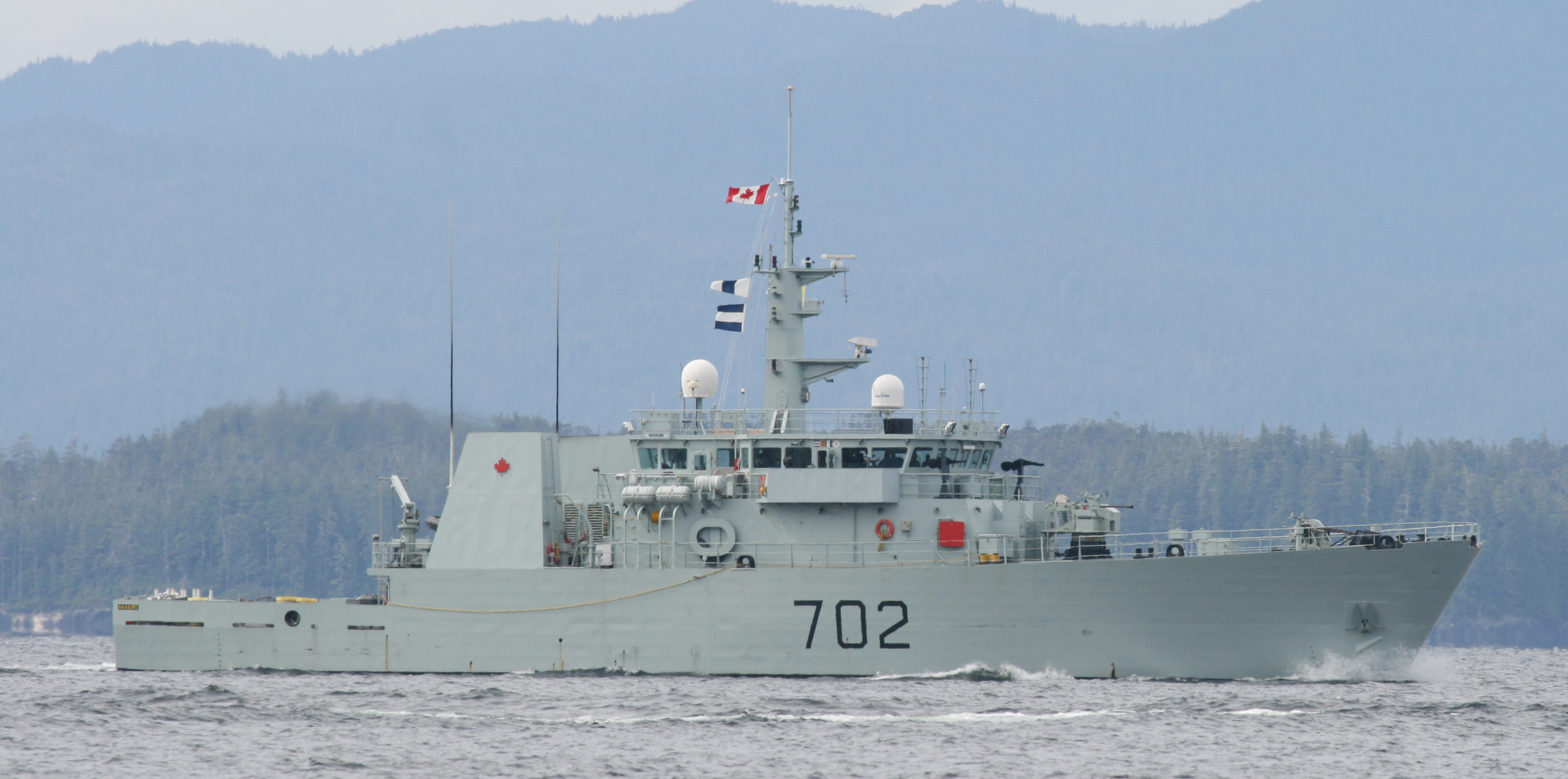 HMCS Nanaimo underway off Vancouver Island in 2007